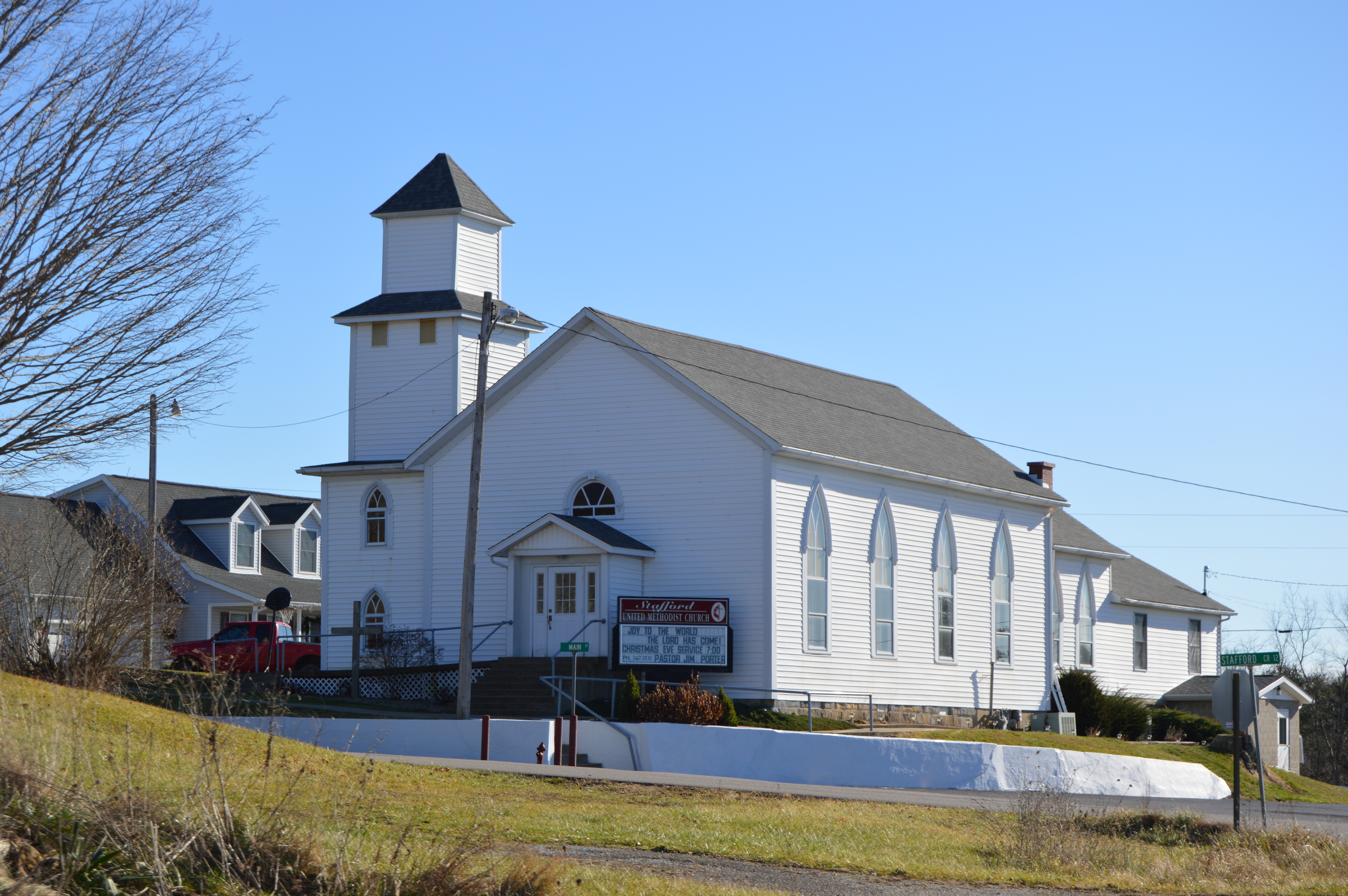 Front and western side of Stafford United Methodist Church, located at the intersection of State Route 145 and Main Street in Stafford, Ohio, United States.